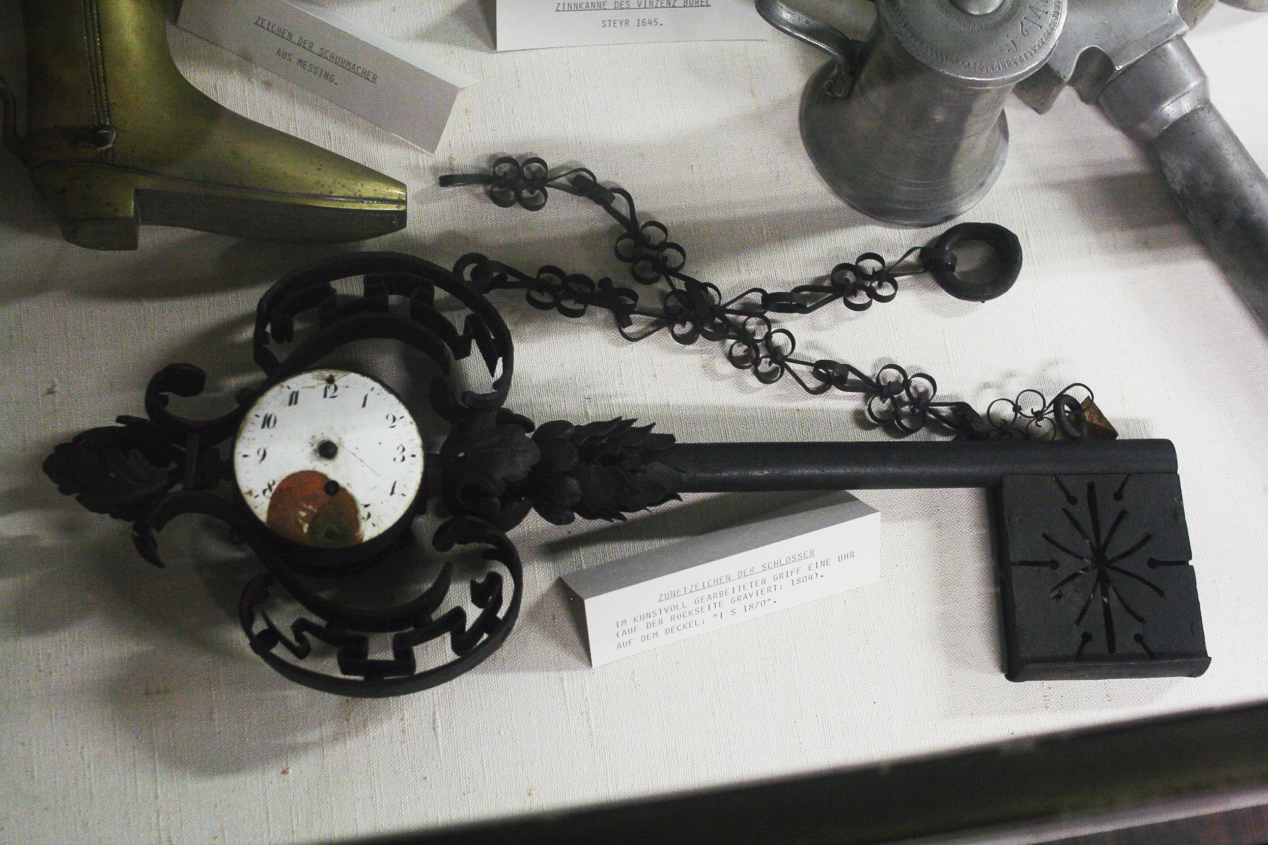 Zunftzeichen der Schlosser im Museum der Stadt Steyr (Innerberger Stadel, erstes Obergeschoss)